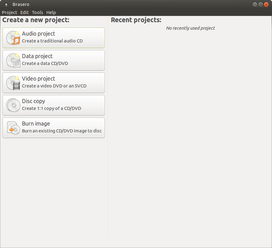 A screenshot of Brasero 3.10.0 running under Ubuntu MATE